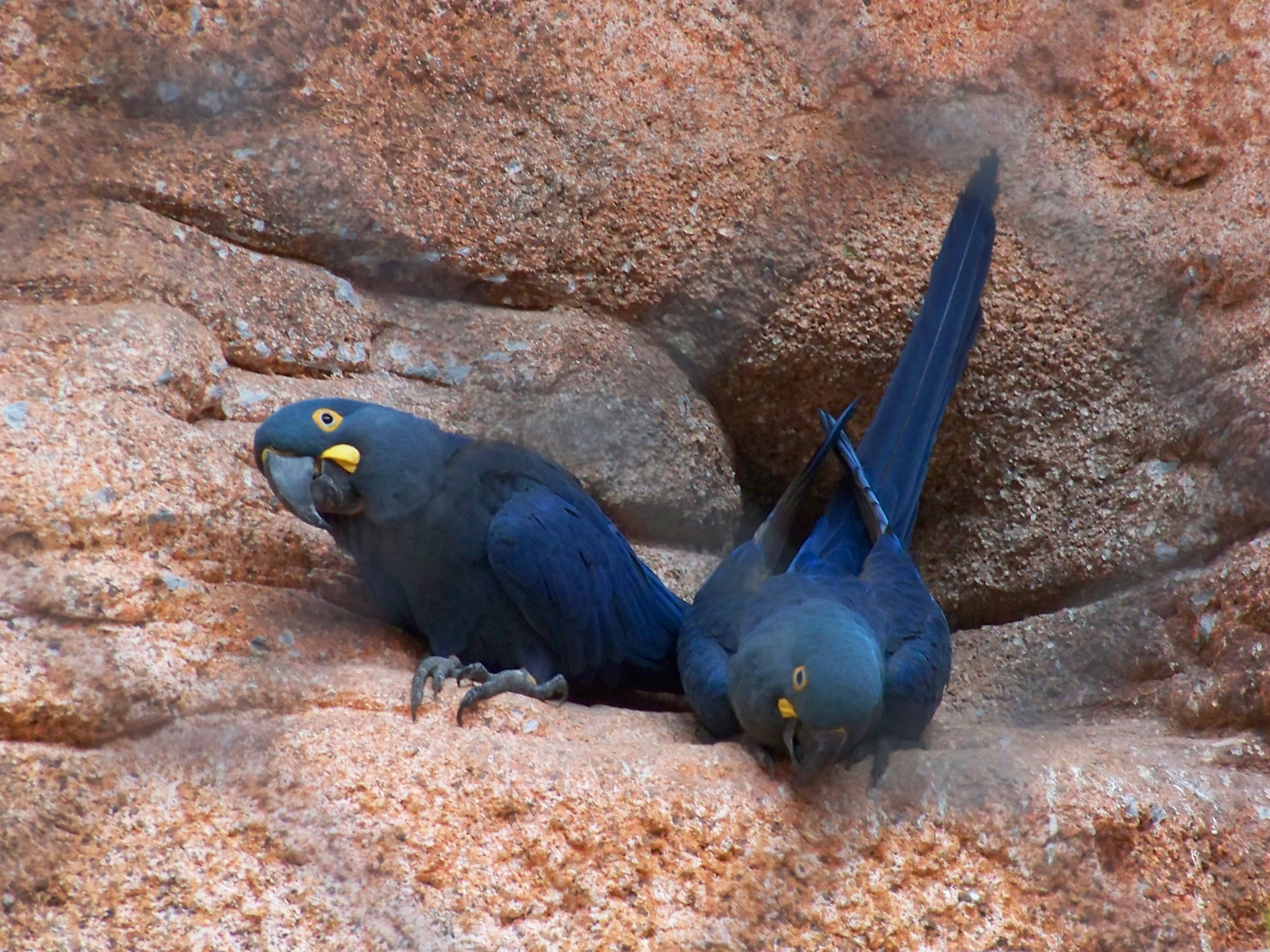 Two Lear's Macaws at Rio de Janeiro Zoo, Brazil.